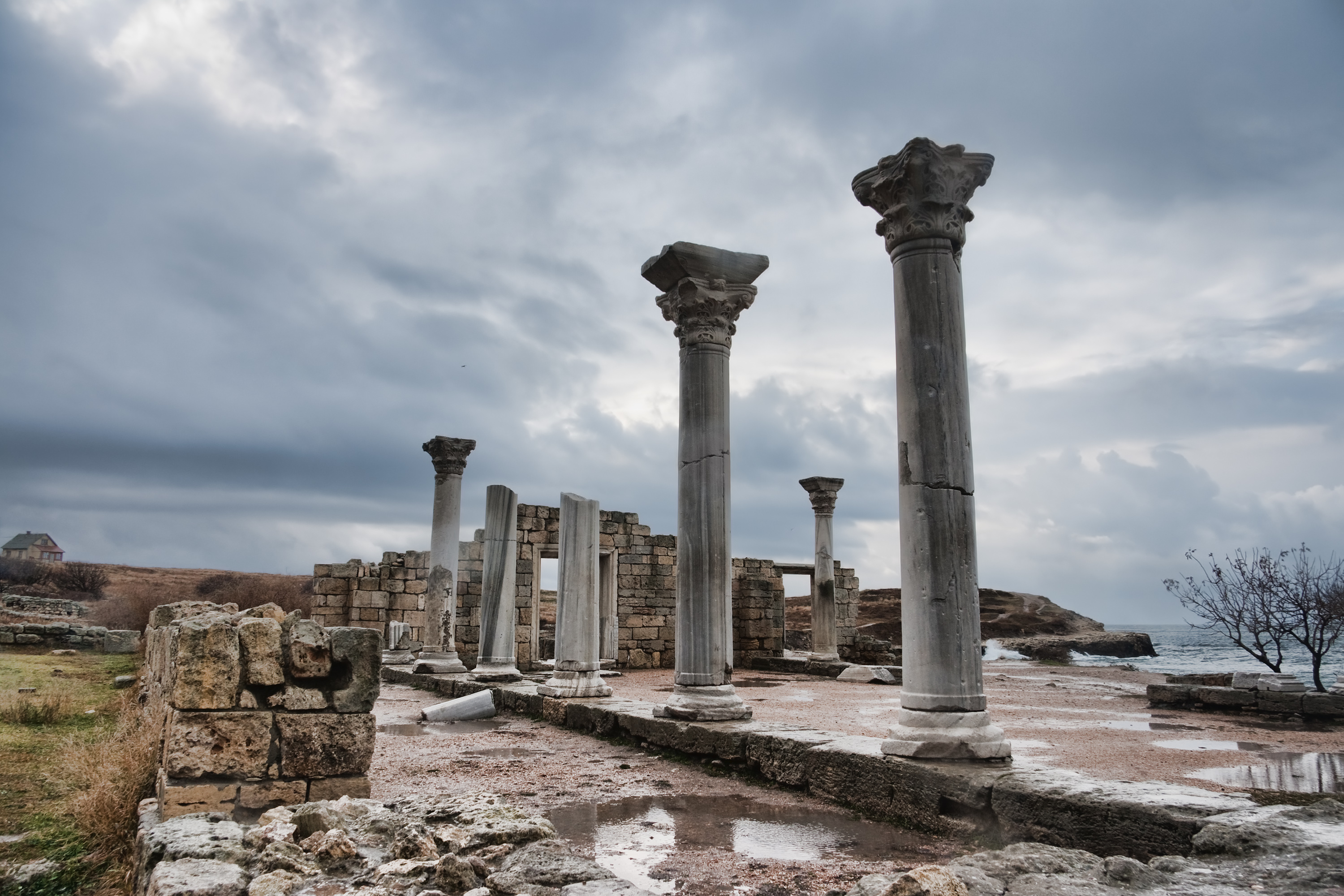 Ruins of Chersonesos. Crimea